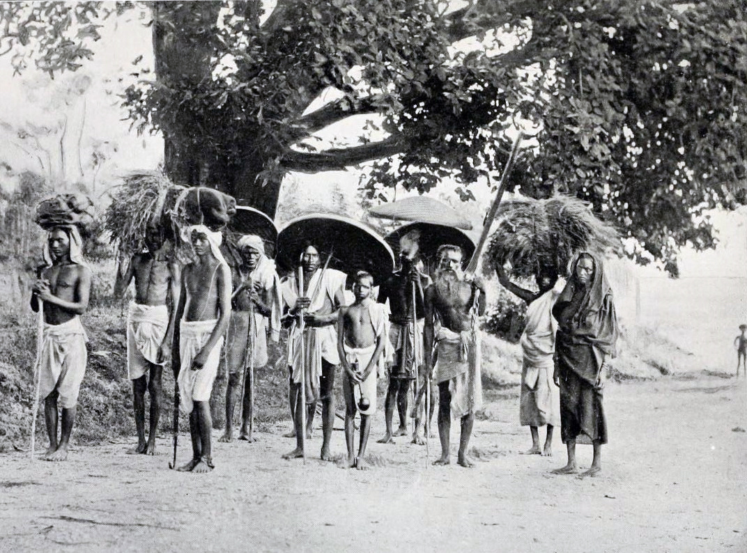 People travelling on the Grand Trunk Road by foot 1910